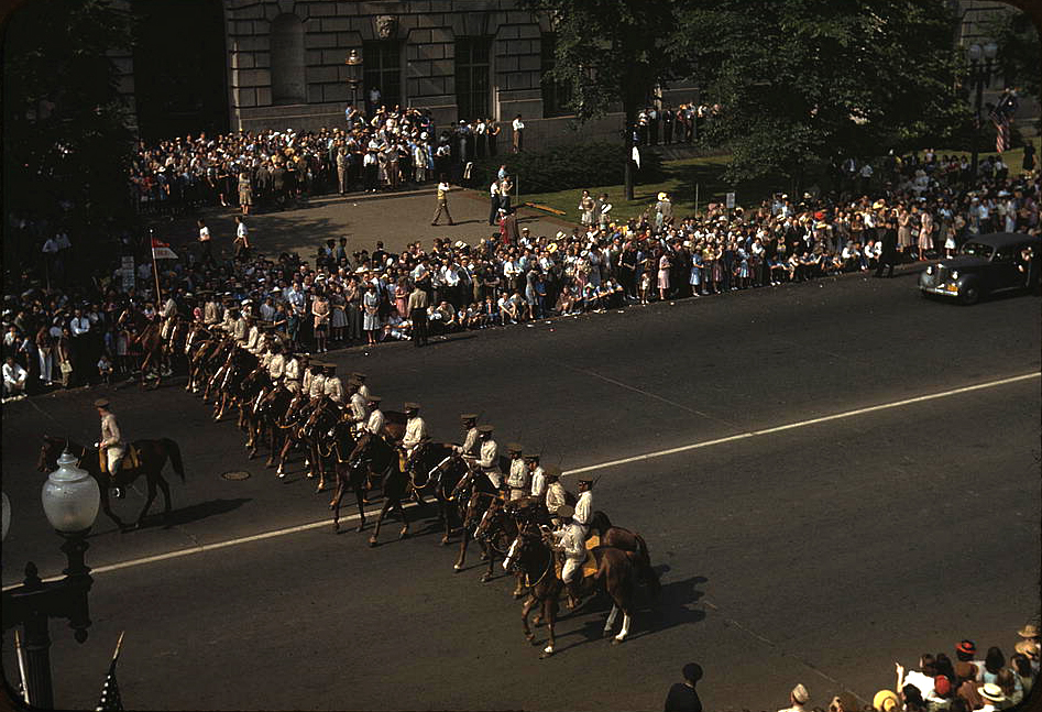 Memorial Day. Library of Congress description: "Black troops at the Memorial Day parade, Washington, D.C." Enhanced color and contrast Bwmoll3 (talk) 01:19, 29 May 2008 (UTC)